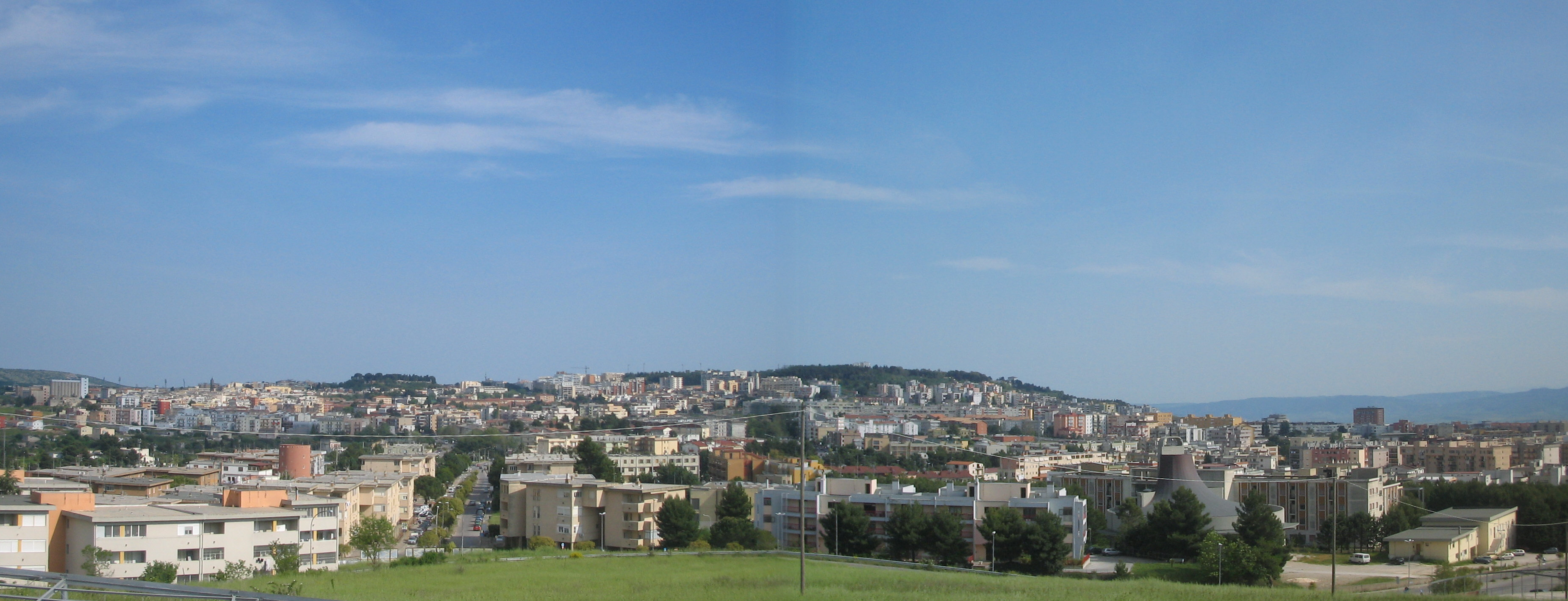 Panoramic view of modern Matera